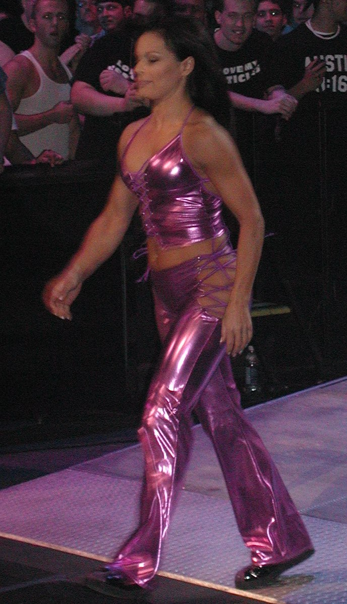 Lisa Moretti at a WWE Raw event at the KeyArena in Seattle on March 312003.